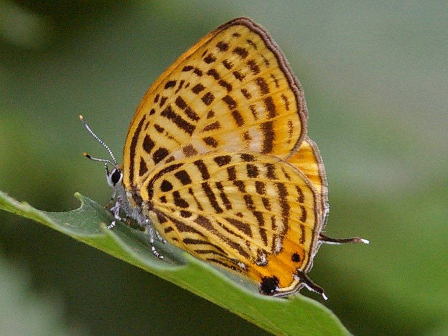 Japonica saepestriata, Japan, 2007